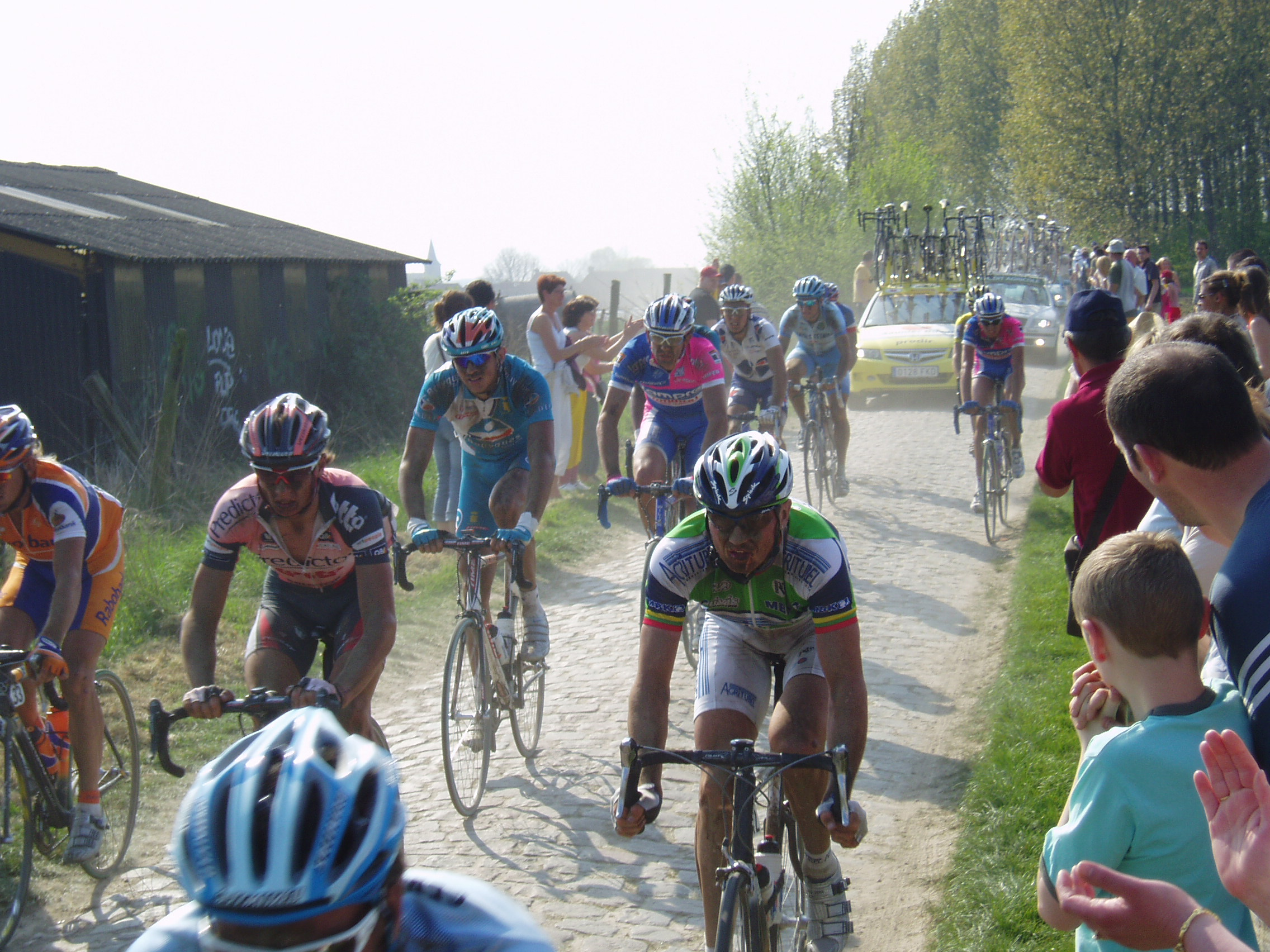 Bunch during Paris-Roubaix 2007